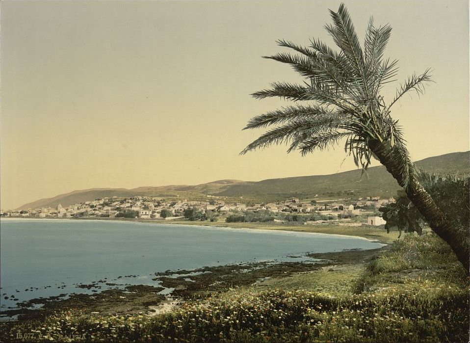 View from near foot of Mount Carmel, probably near Kfar Samir